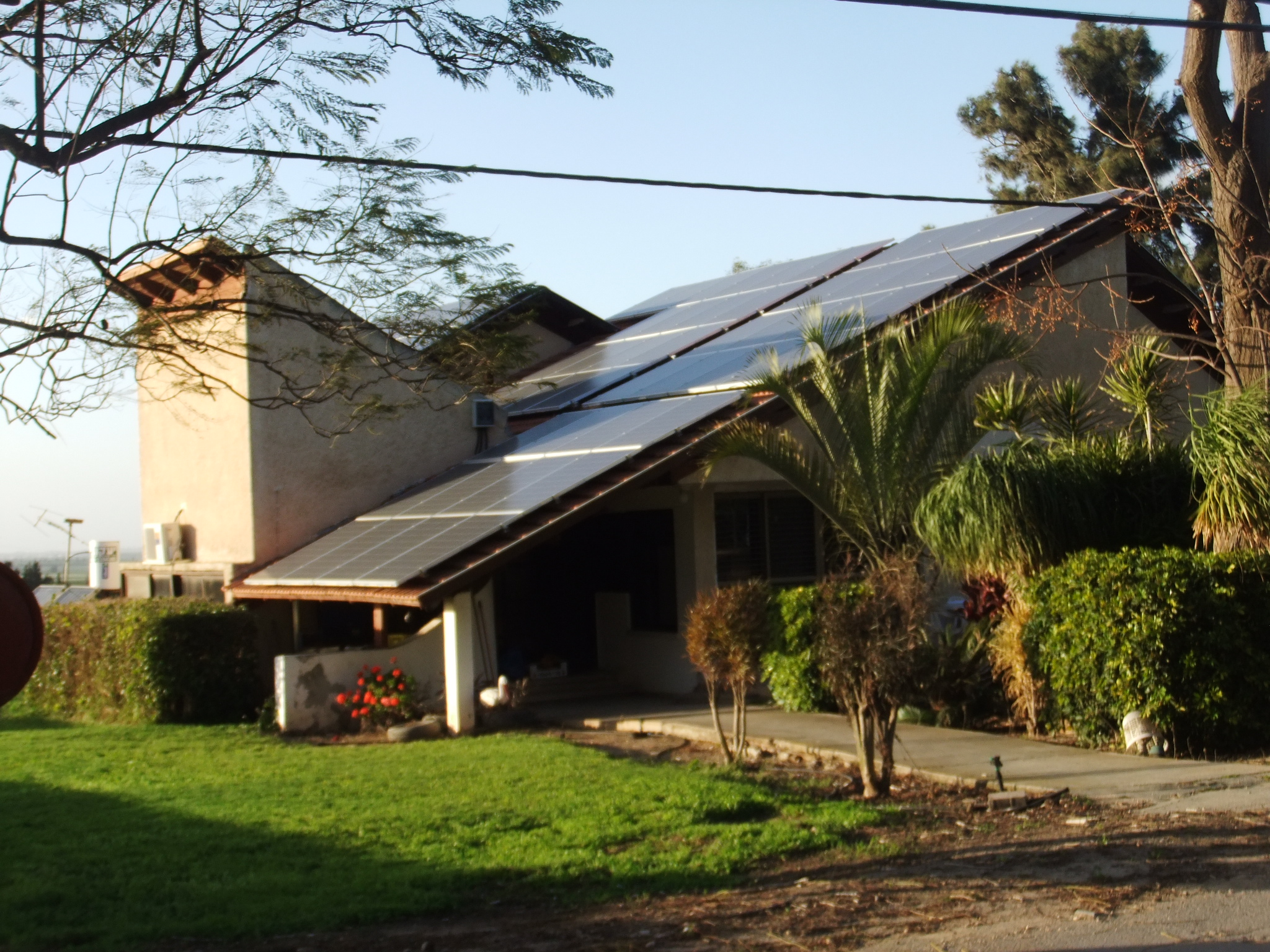 House with solar panels on Roof in Moshav Tekuma